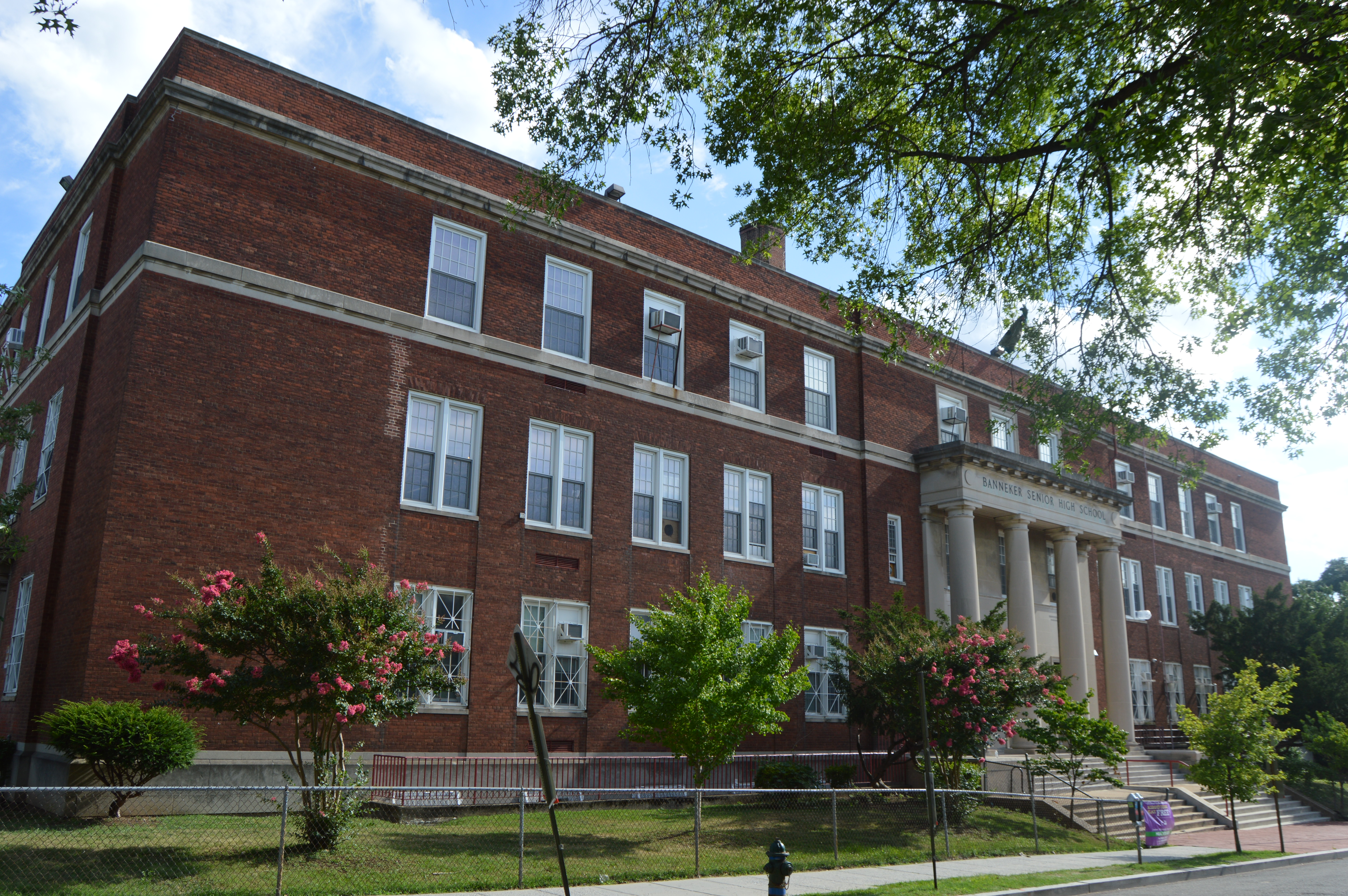 Front of Benjamin Banneker Academic High School, located on Euclid Street east of Ninth Street in NW Washington, D.C., United States.